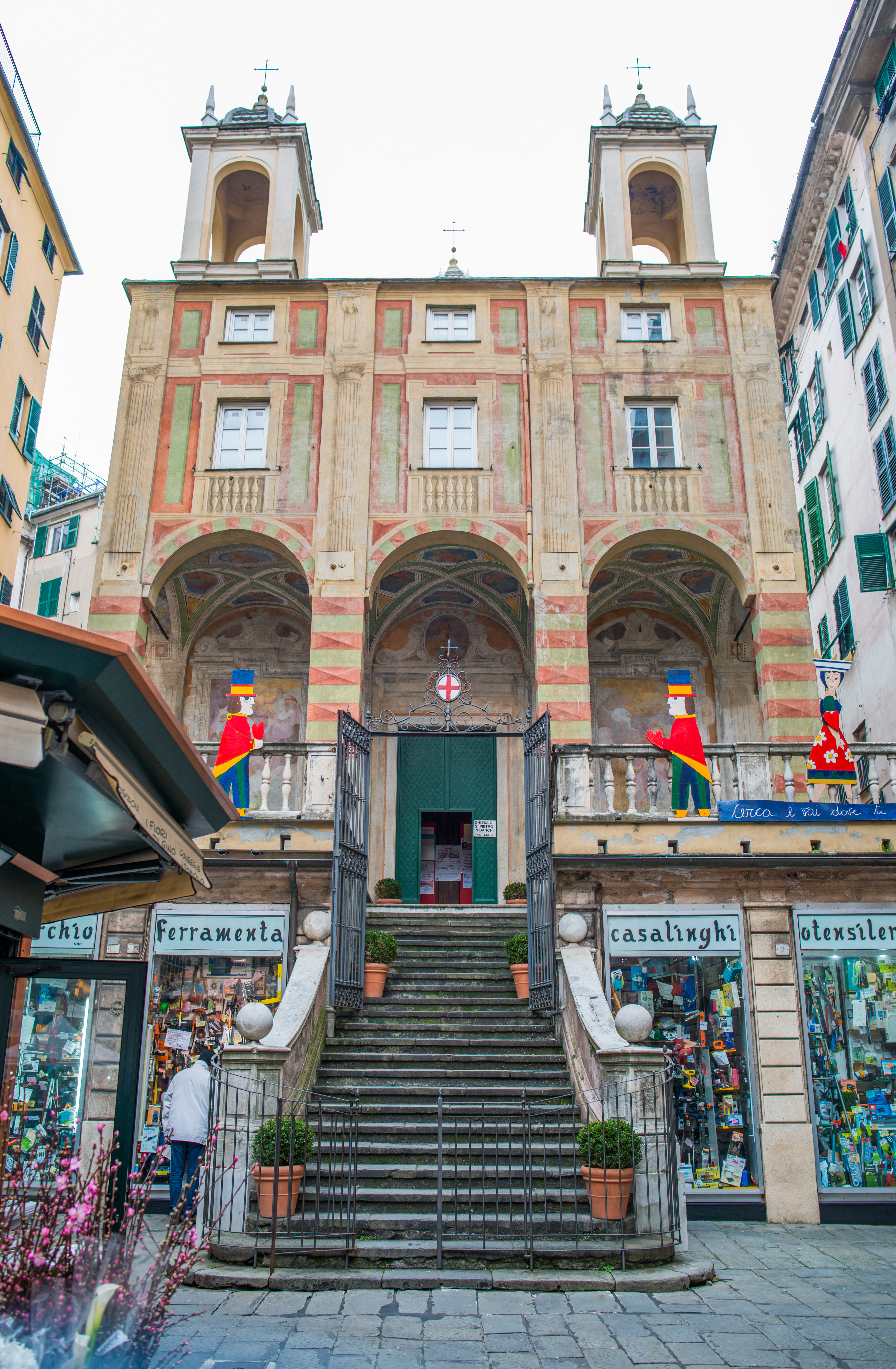 Genoa Italy February 2013